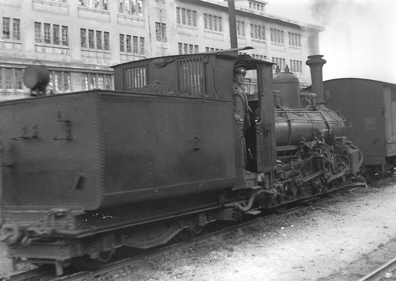 Klose narrow gauge locomotive 186-007 at Dubrovnik. Radial gear working